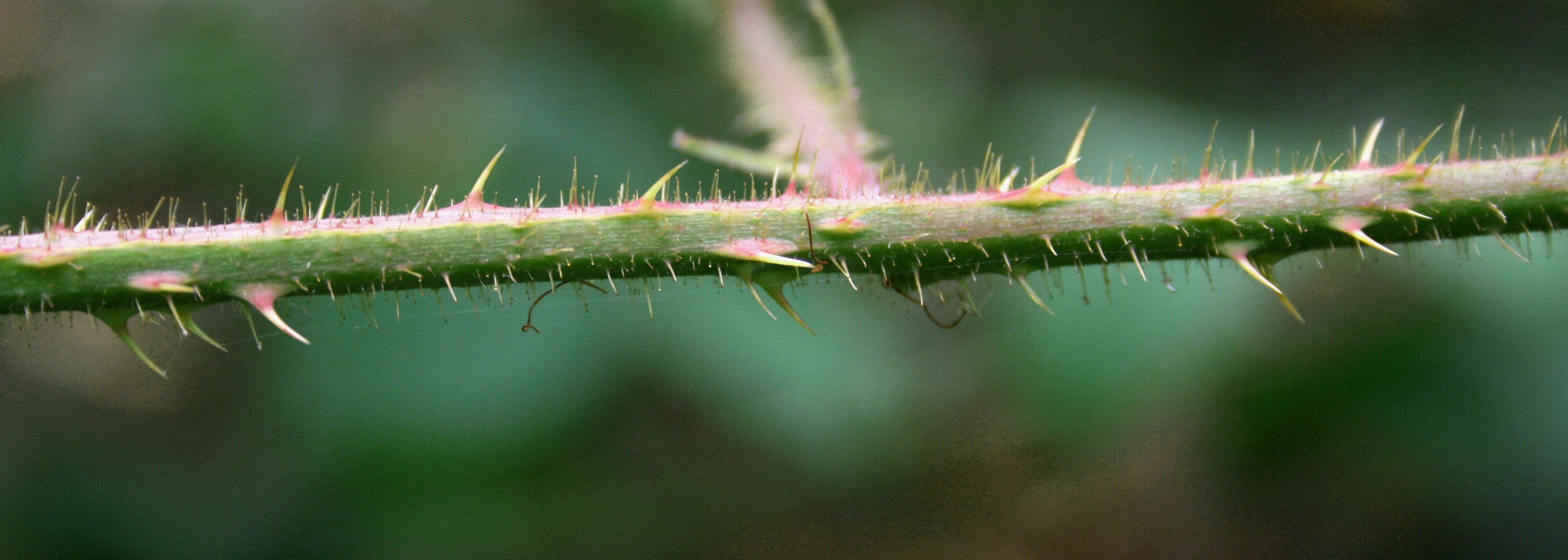 Blackberry - prickles